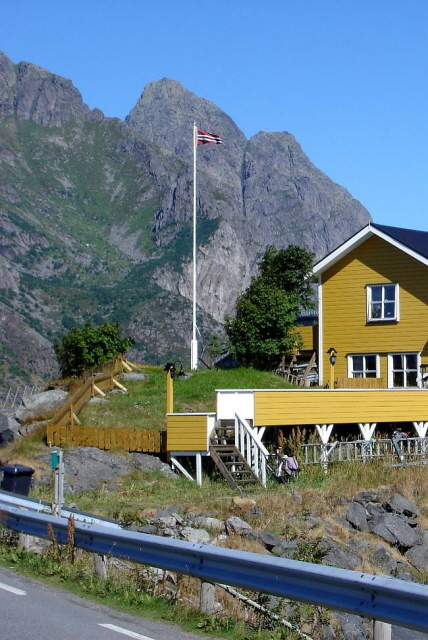 Wooden buildings in Norway